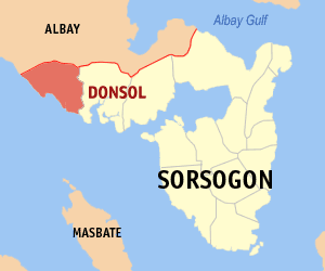 Map of Sorsogon showing the location of Donsol